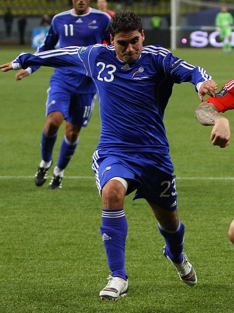 Andorran football player Alexandre Gutierrez during match against Russia.